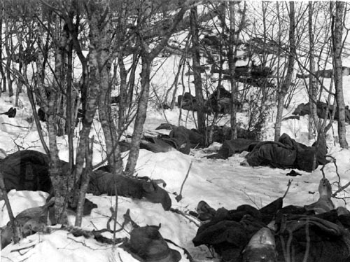 1918 Finnish Civil War: Dead Red Army solders and Red Guard fighters in the "Death Valley" after the Battle of Rautu, 5 April 1918.